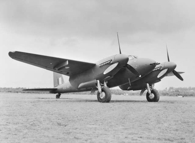 AWM caption : "A DH-98 Mosquito Bomber aircraft A52-50 which served with 5 Operational Training Unit (5 OTU) prior to its disposal in 1949. This image is one of several put together in a promotional booklet after the end of the Second World War by F Dickin Pty Ltd, a furniture factory at Leichhardt NSW which was employed to produce part of the DH-98, the rear spar."